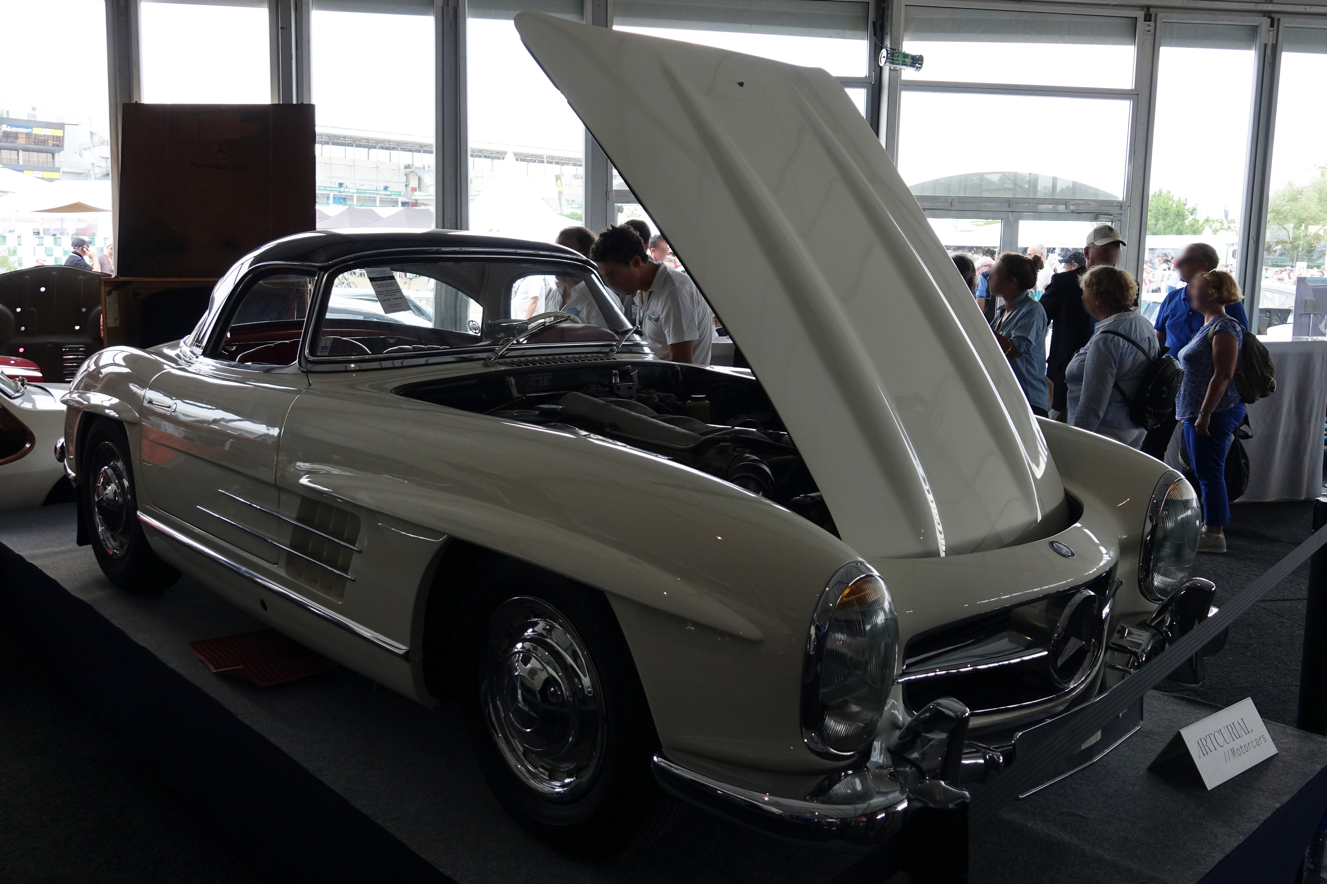 1963 Mercedes-Benz 300 SL Roadster Châssis n° 198 042 10 003222, swedish single-owner ca 1400 km, auctioned for €3,143,400 at Artcurial, Le Mans Classic on 7 July 2018.[1][2]